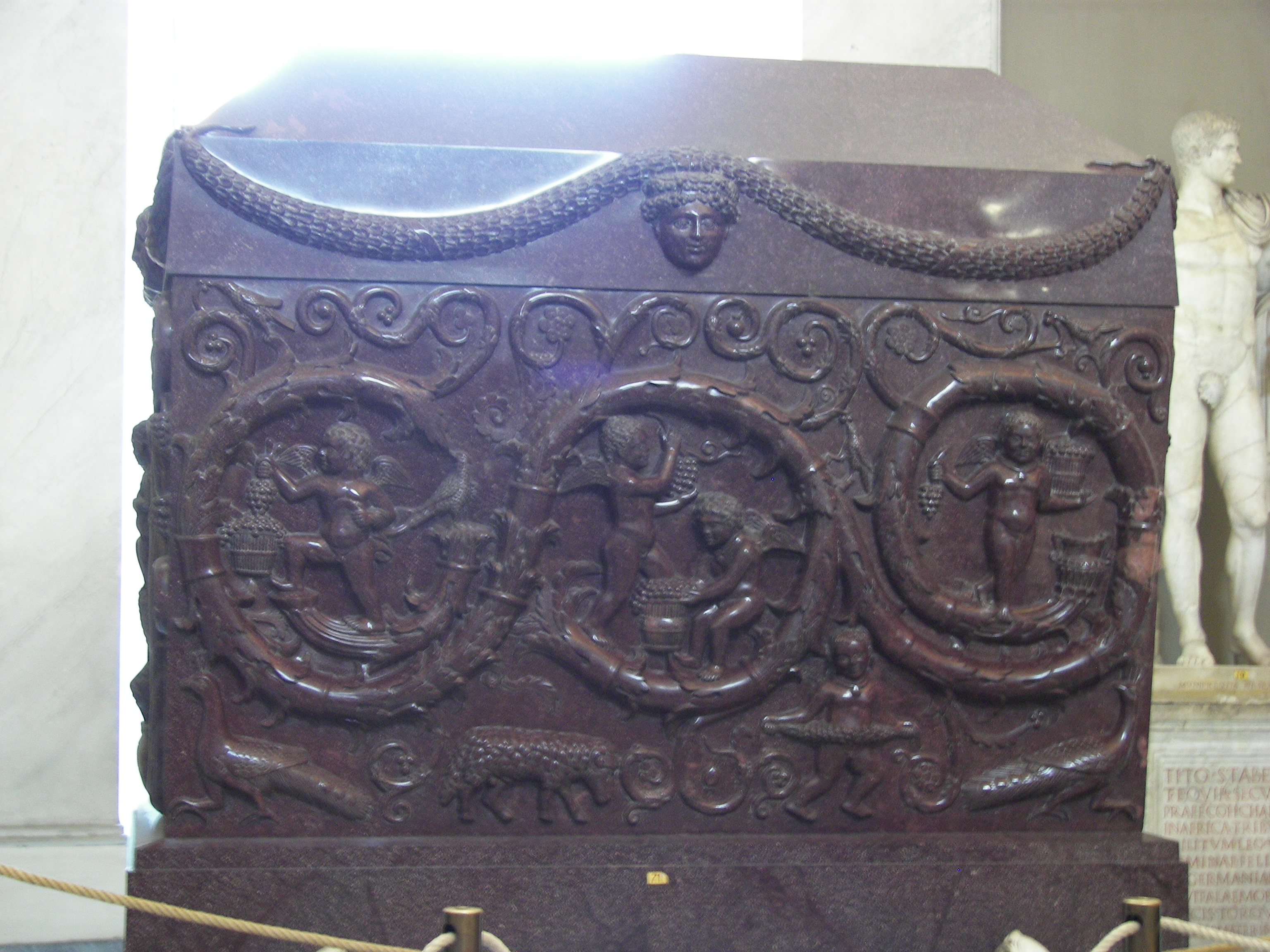 Sarcophagus of Constantina in the Vatican Museums.